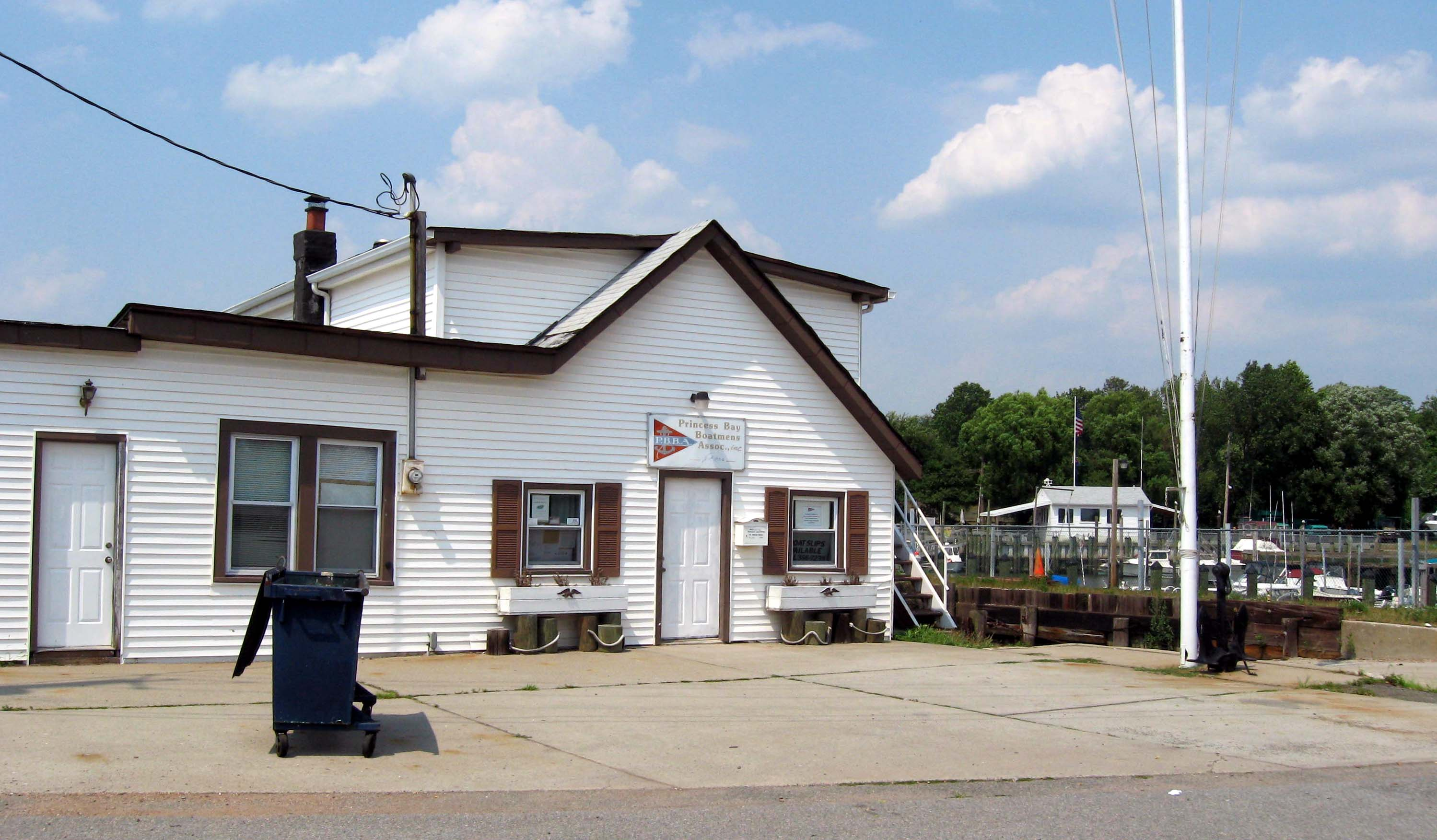 Looking north at house of Princess Bay Boatmen's Association on the left bank of Lemon Creek, Staten Island on a sunny midday